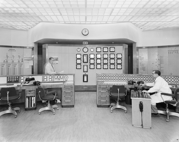 Oslo Lysverker operations center in Noreveien No. 26 in Oslo 1963.